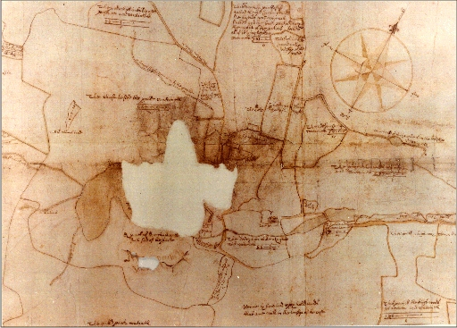 Карта Томаса Хардінга 1628 року